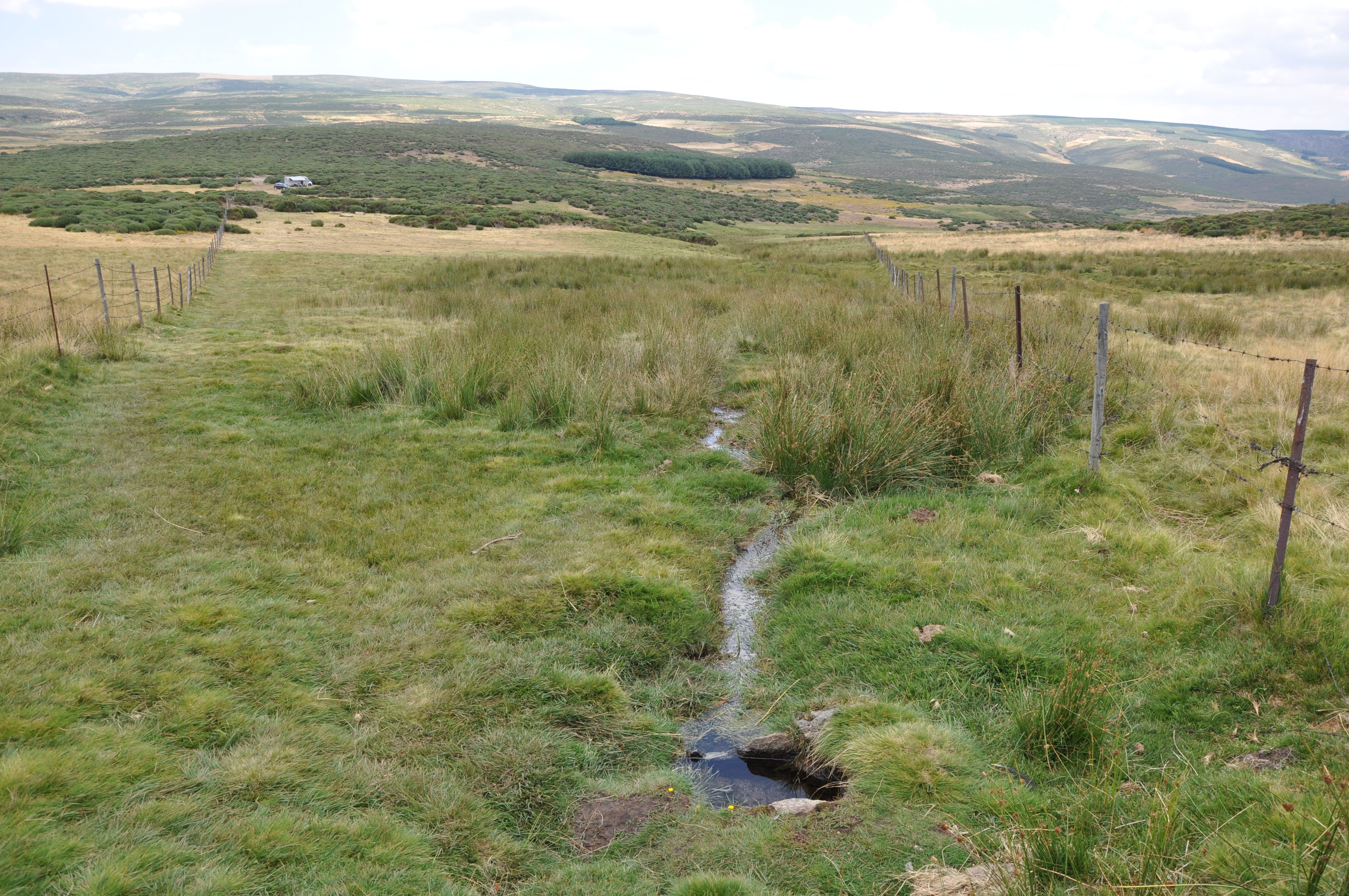 Panorama from the Alberche Fountain, San Martín de la Vega del Al ..., Avila, Spain